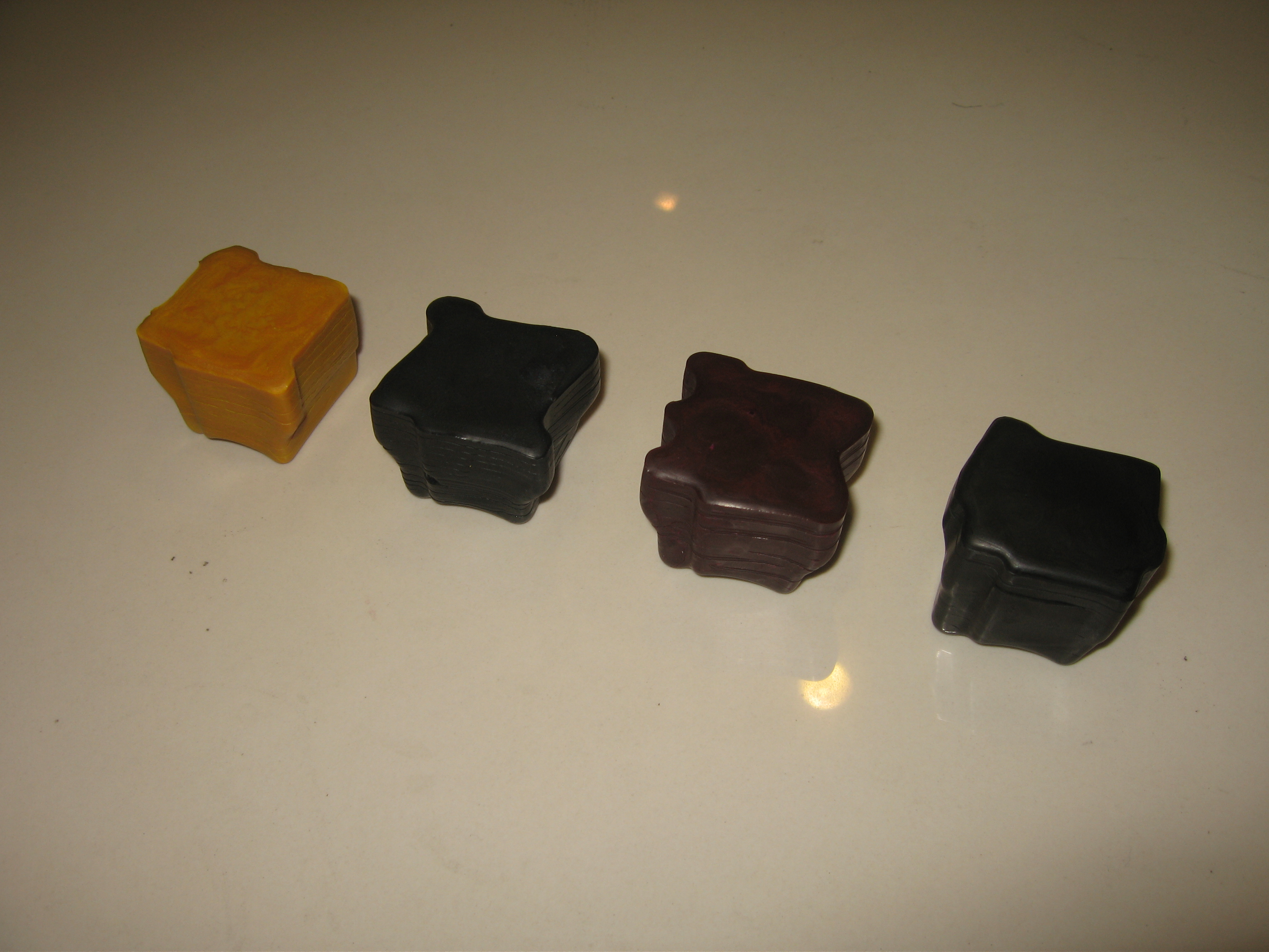 Solid Ink.